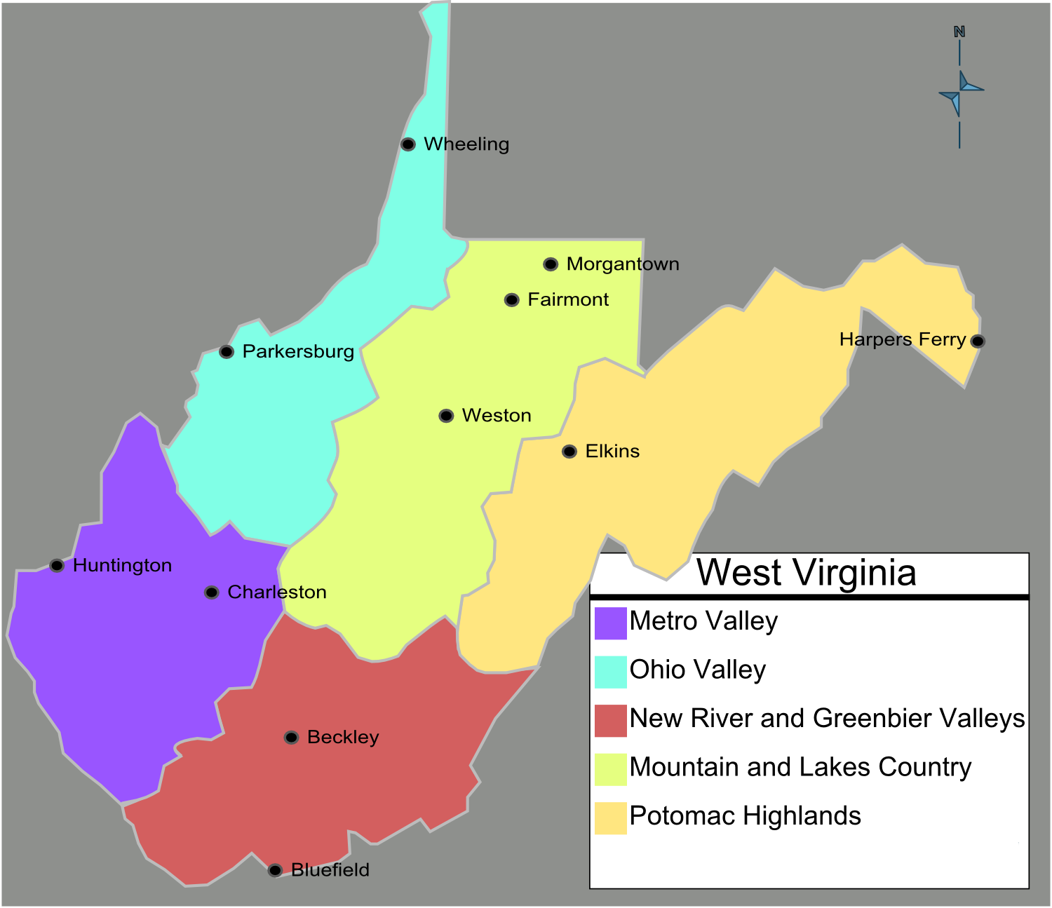 The Regions of West Virginia. Output Bitmap, West_Virginia Map of: West Virginia¤.